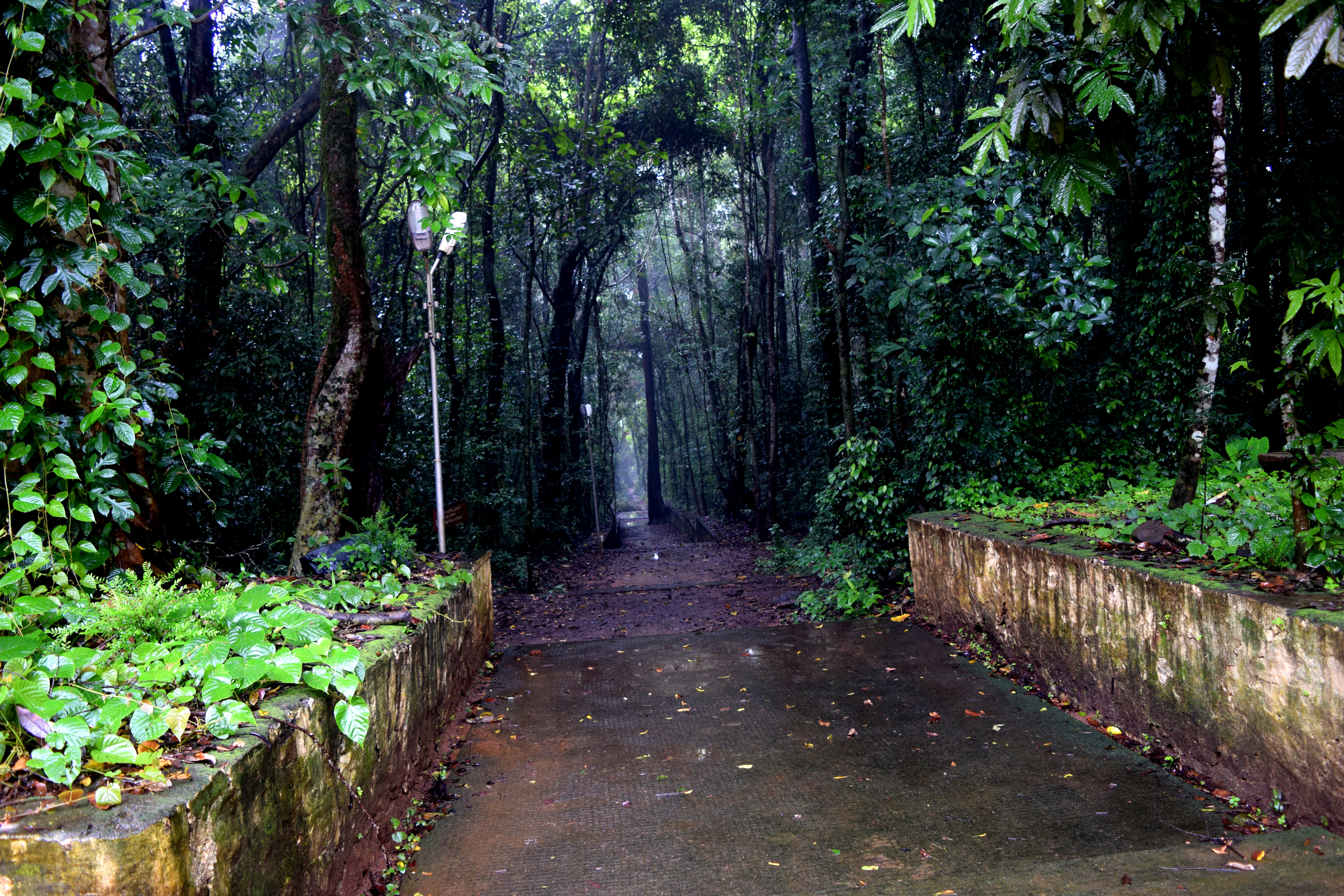 Iringol Kavu Perumbavur Kerala India